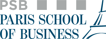 Official logo of PSB Paris School of Business.